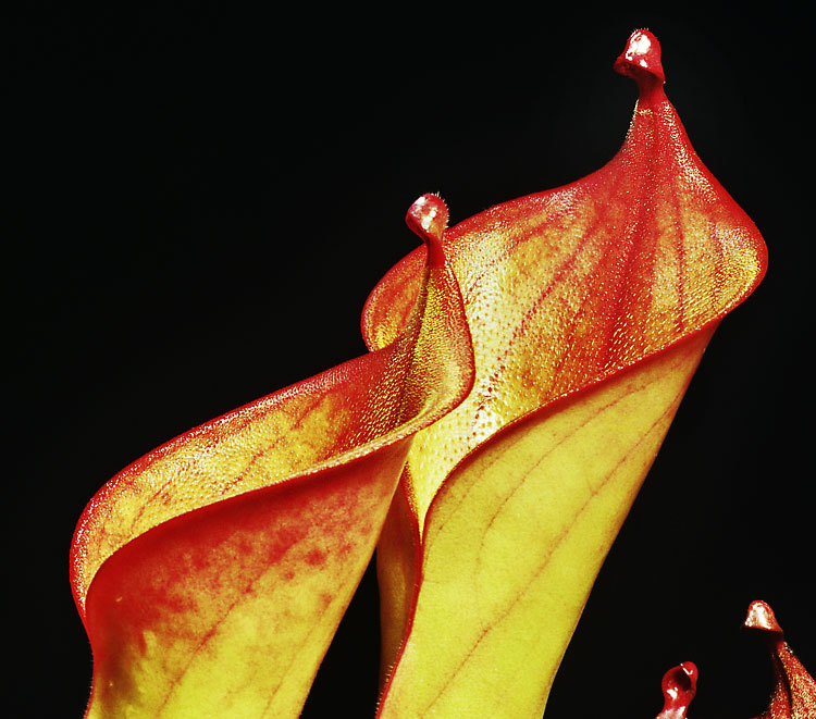 The pitchers of a Heliamphora ionasi, a species of Marsh Pitcher Plant.